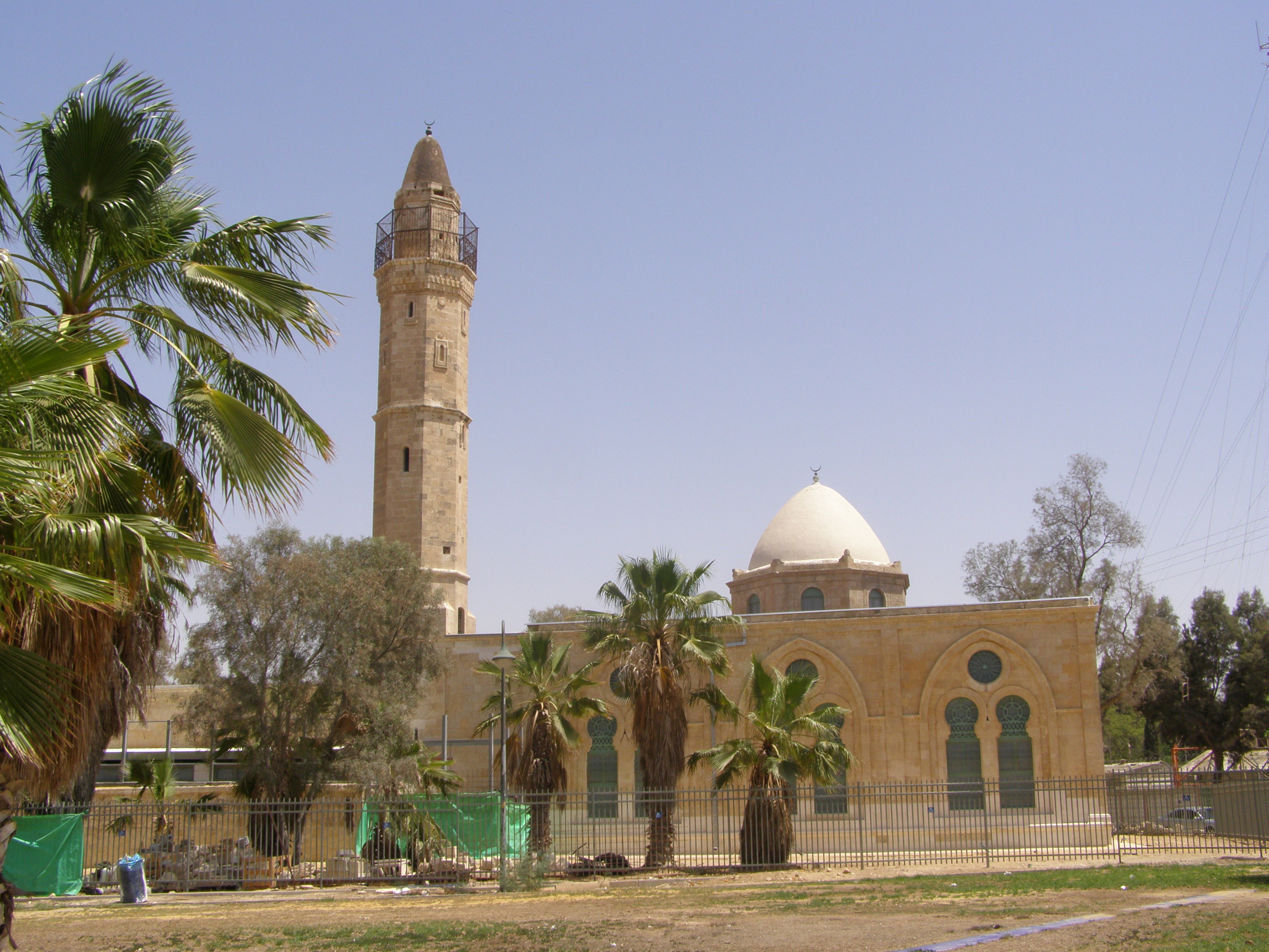 Beersheba, Old City, Large Mousque in Remez Garden